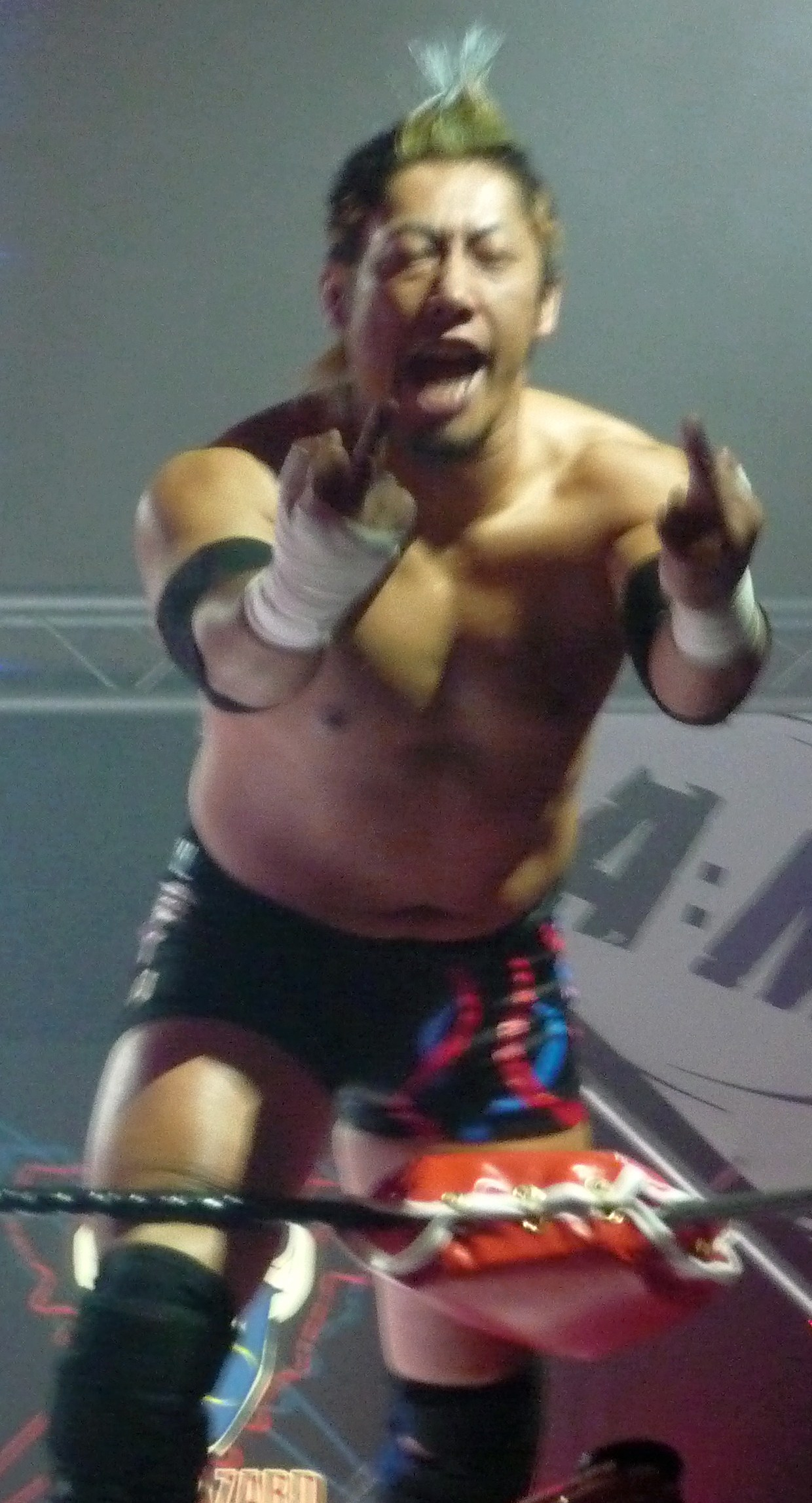 Ryo Saito at the "Dragon Gate Invasion: UK" at the Regal in Oxford.